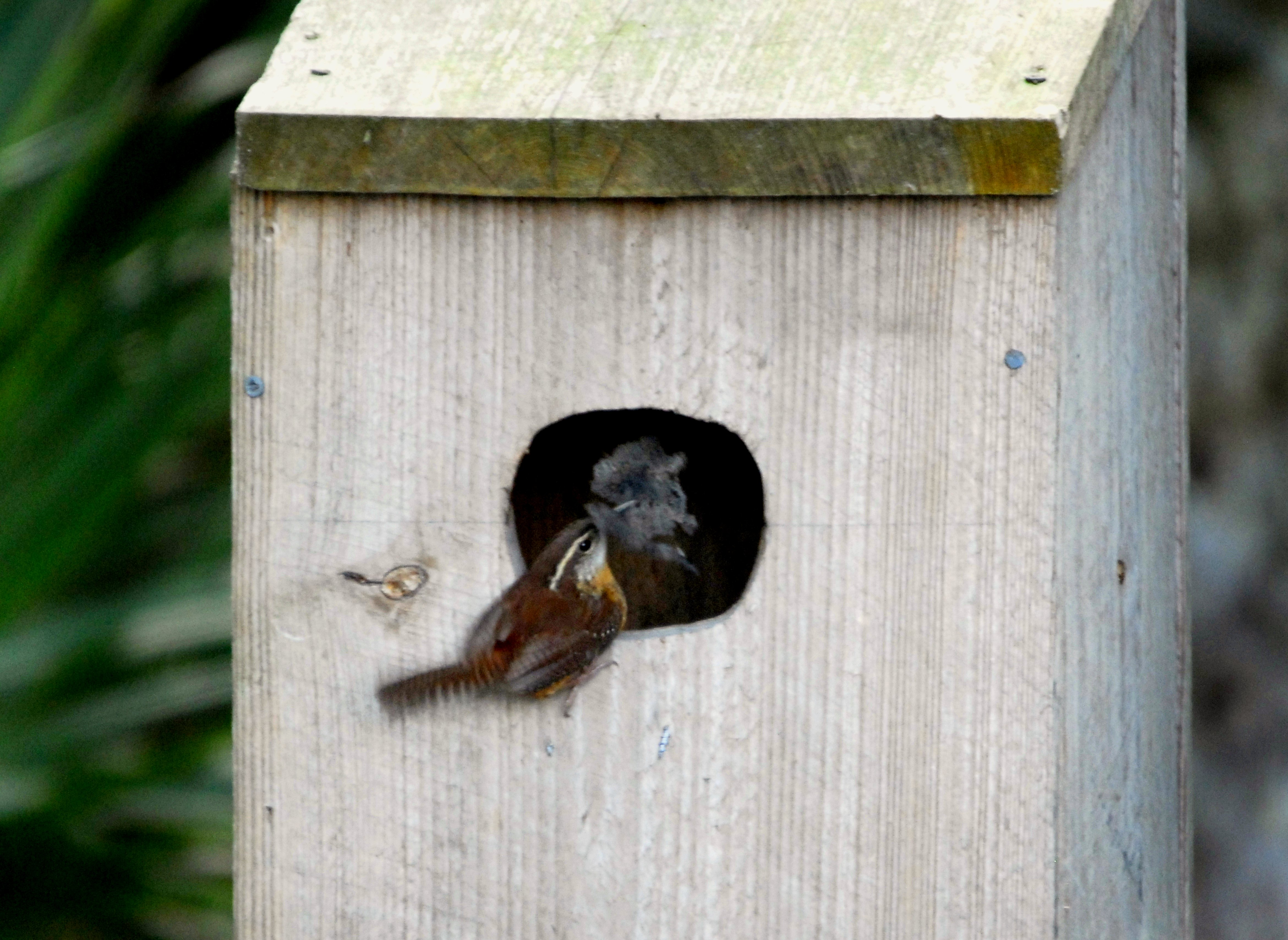 Carolina Wren nesting in a duck box taken at Lake Woodruff